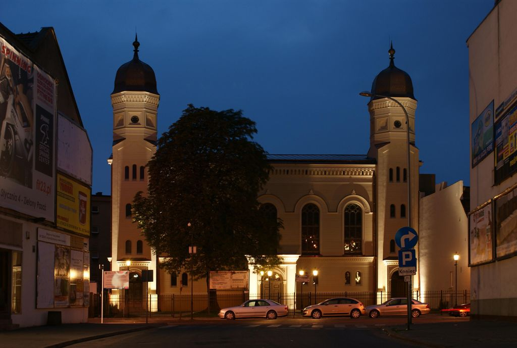 New Synagogue in Ostrów Wielkopolski illuminated